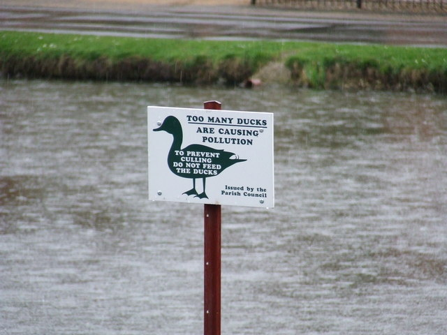 Too many ducks One of a few signs in one of the Great Massingham's ponds Great Massingham Norfolk.